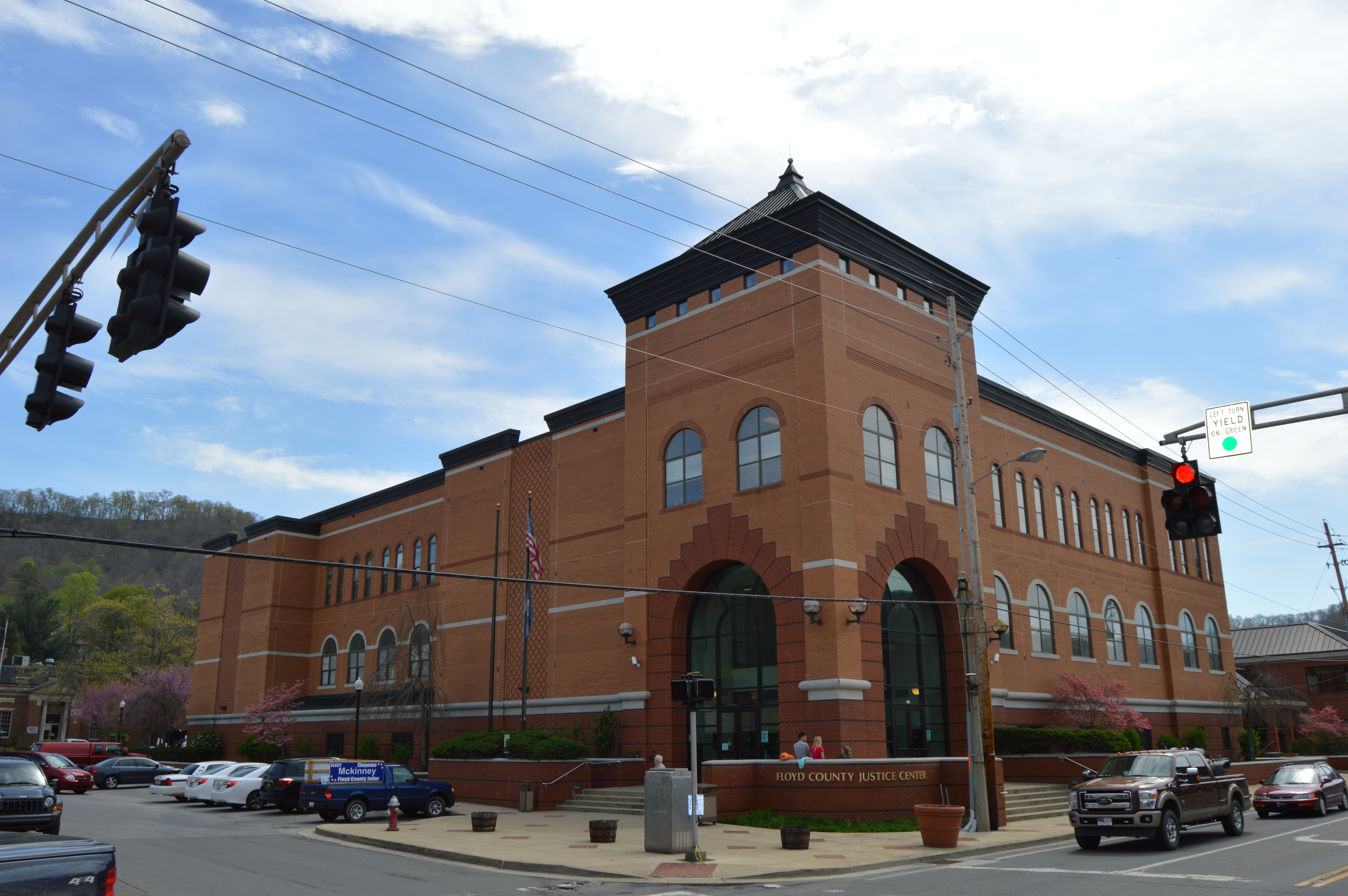 View from the west of the Floyd County Courthouse, located on the eastern corner of Lake Drive (Kentucky Route 1428) and Court Street in downtown Prestonsburg, Kentucky, United States.